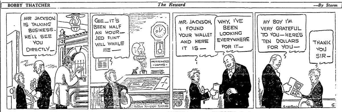 Bobby Thatcher comic strip A search for renewals in contributions for publications and in artwork was done for the years 1954 and 1955. There were no listings for George Storm, the McClure Syndicate or Bobby Thatcher. There's no evidence of a continuing copyright.